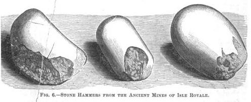 Stone Hammers used for prehistoric copper mining by Native Americans at the Minong Mine — on Isle Royale, in northern Michigan. The Minong Mine Historic District is on the National Register of Historic Places in Isle Royale National Park and Keweenaw County, Michigan.